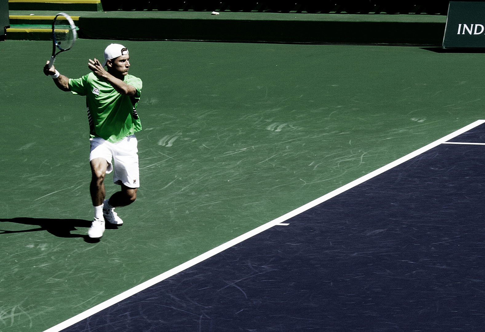 on the way to beating Frank Dancevic in IW 2013.